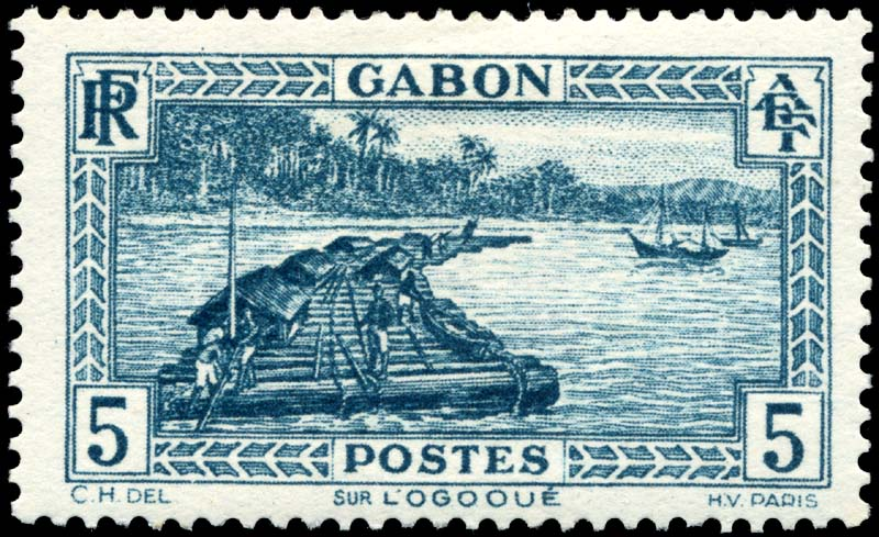 Gabon 5c stamp of 1932